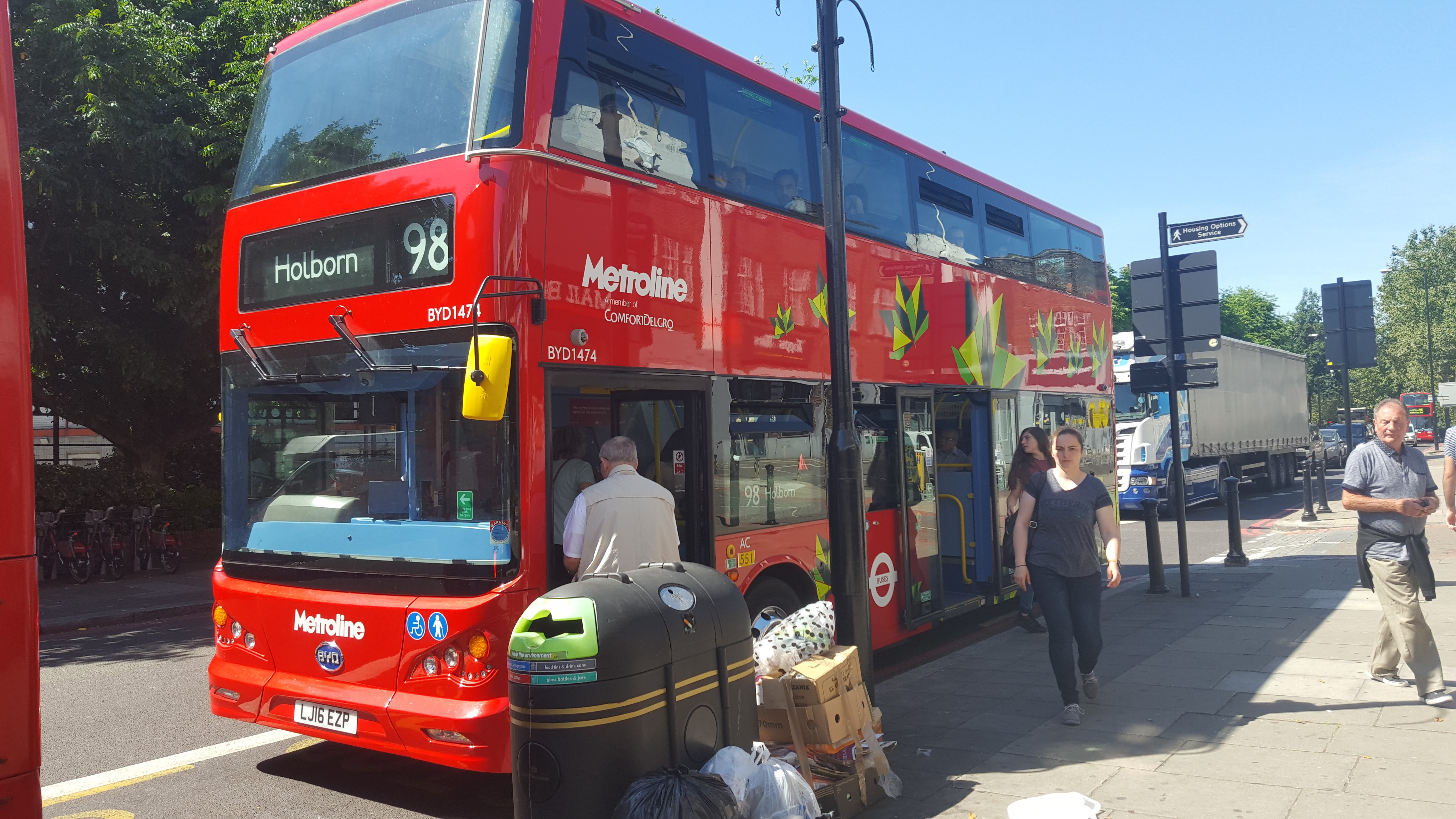 One of the first electric buses manufactured by BYD travelling around the streets of London on route 98. Numberplate: LJ16 EZP, reference BYD1472